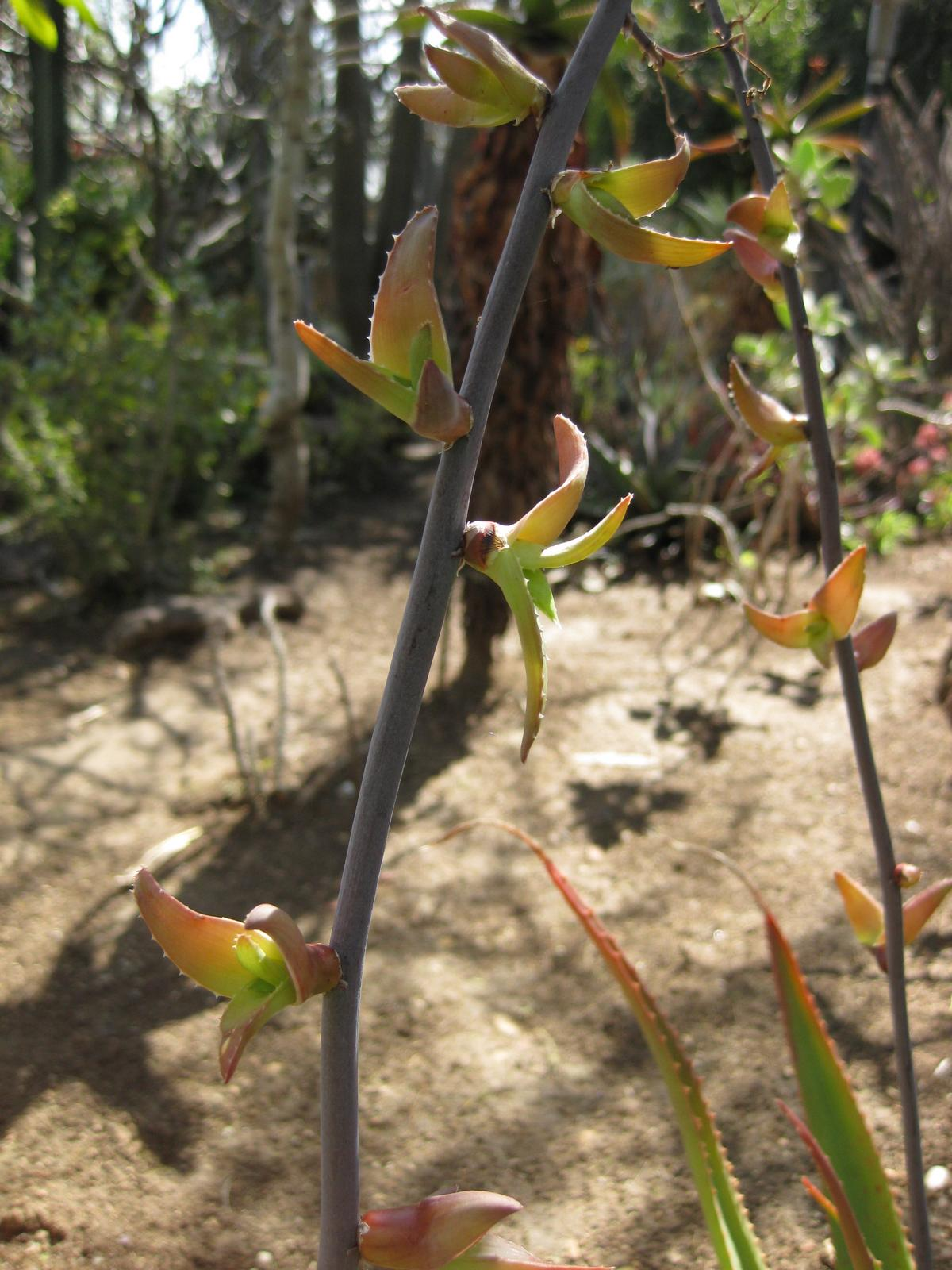 Aloe plant part photographed at Huntington Gardens (Los Angeles, California) in March